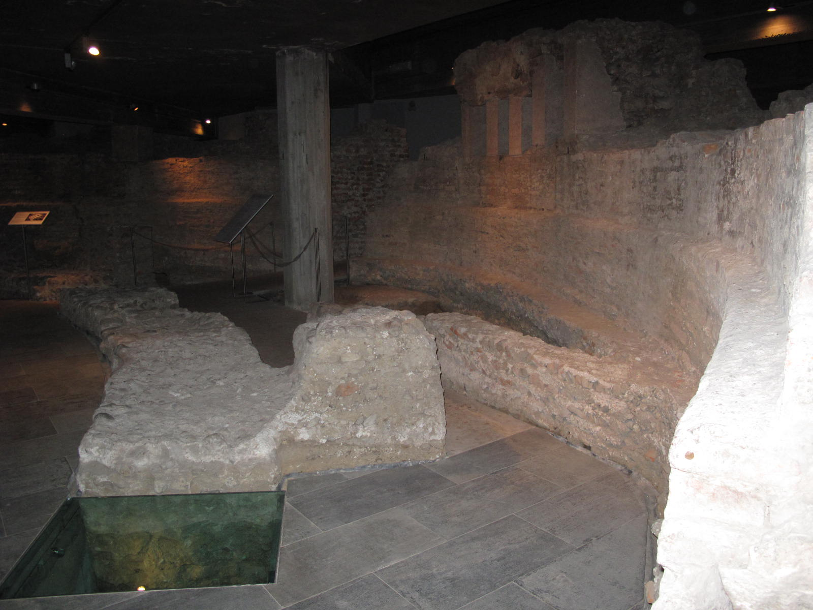 Basilica of Saint Tecla Milan. Ruin of the apse. The lower inner wall is 4th century (or early 5th century). The raised external wall is dated 5th or 6th century